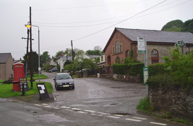 Maeshafn. The centre of the village of Maeshafn, between Llanferres and Mold